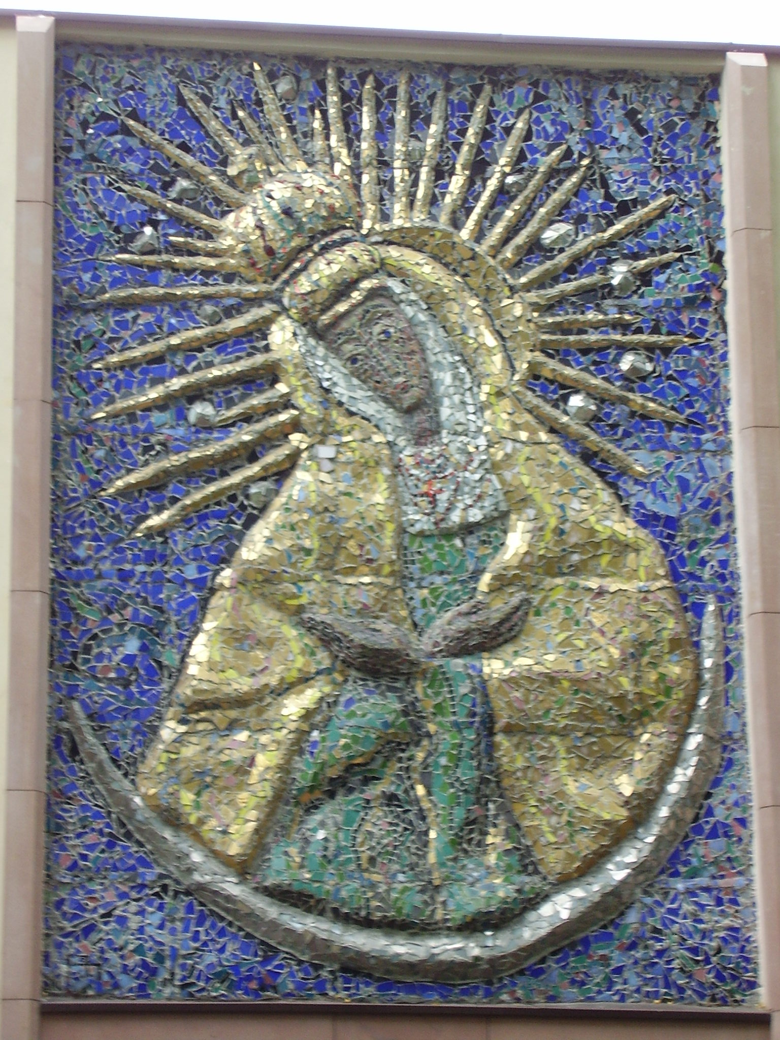 The mosaic of St. Mary on the wall of the St.Mary of Gate of Dawn Church in the Warsaw district of Bemowo (Poland)